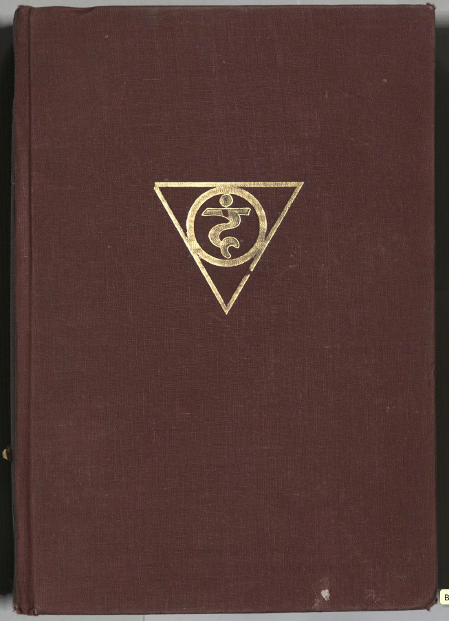 Cover from the First german Edition "Autobiography of a Yogi" book 1950.